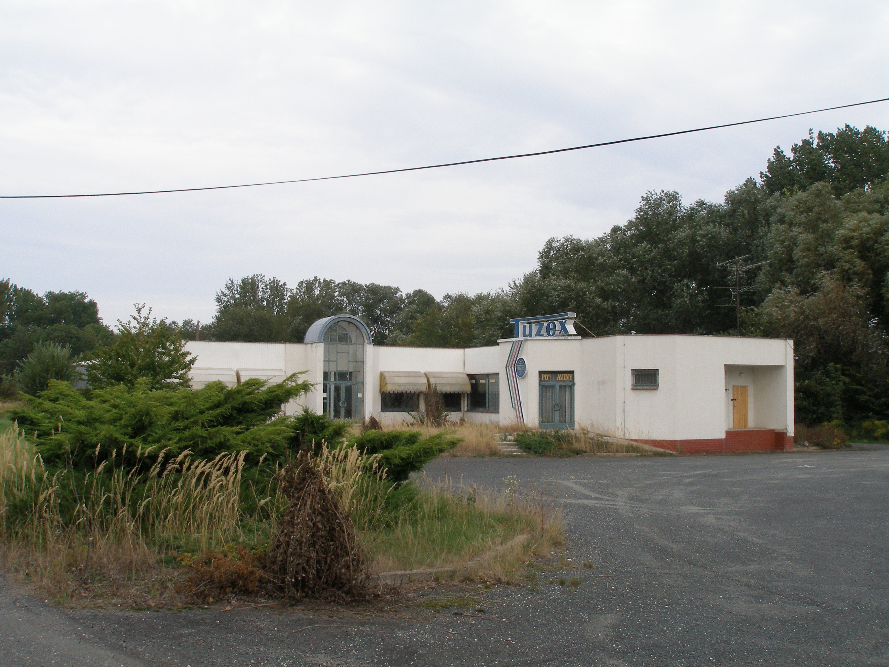 Former Tuzex shop by the railway station in Kouřim.